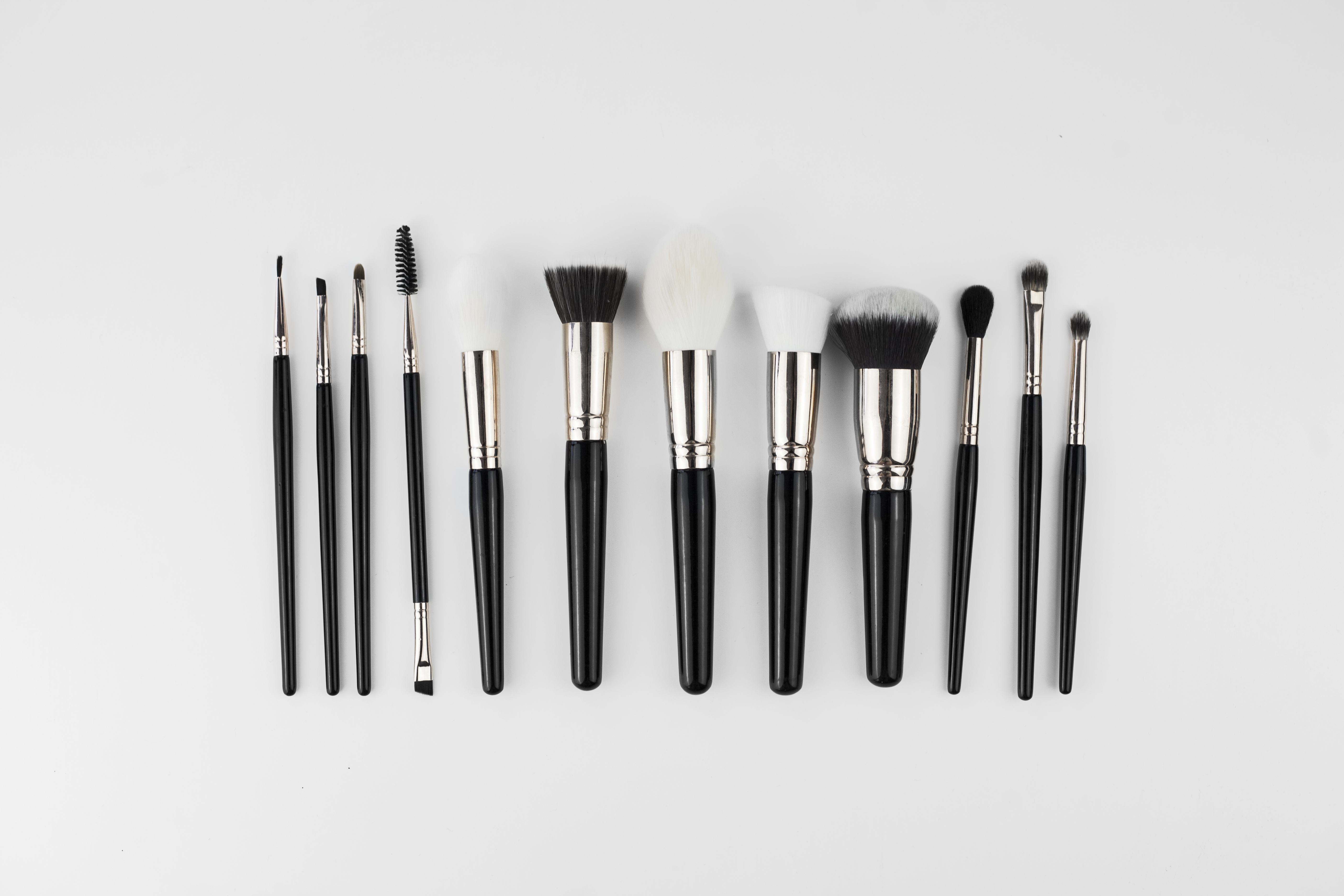 Makeup Weapons brushes vegan handmade cruelty free Australian makeup brand